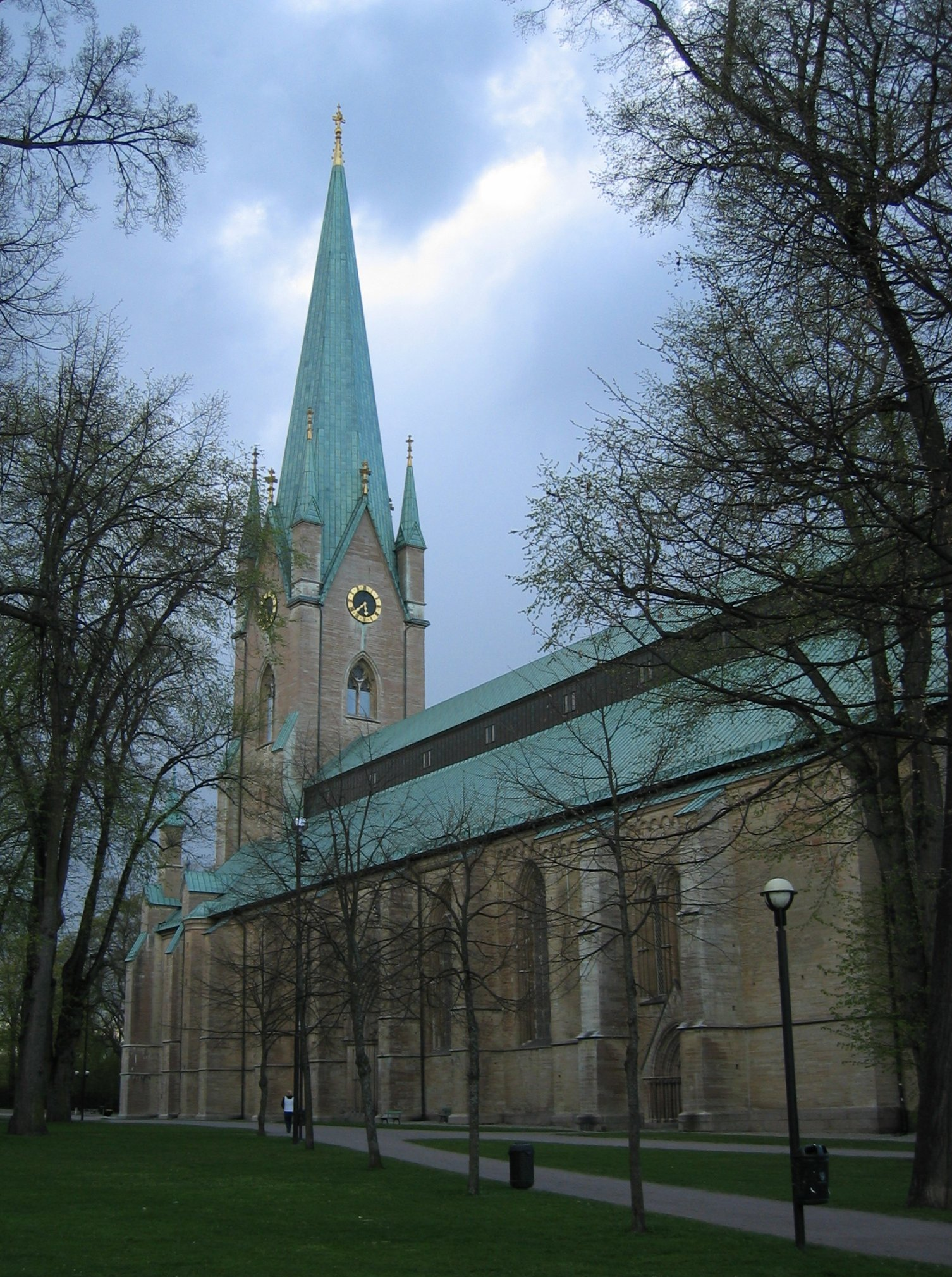 Linköping Cathedral, Linköpings domkyrka, in Linköping, Sweden, seen from the south-east.